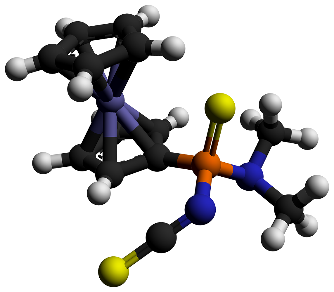 N,N-Dimethyl-P-Ferrocenephosphoramido isothiocyanate 3D ball and stick model